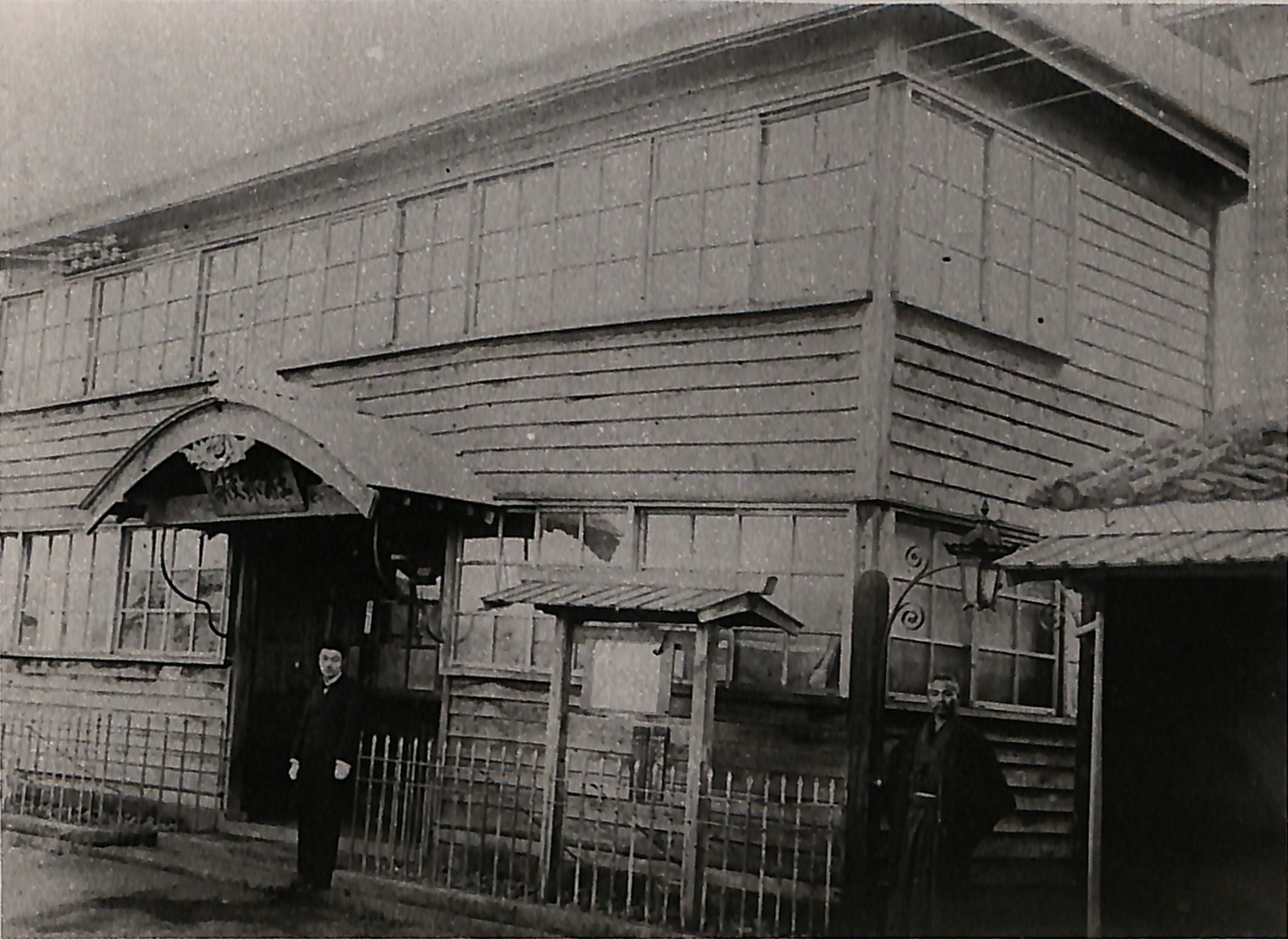 This was Tsuchiura post office in Tsuchiura, Ibaraki, Japan.